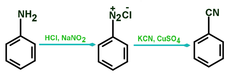 Benzonitrile synthesis from benzylamine